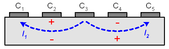 Splitted Hall structure of vertical Hall sensor (C3 is the central current electrode, C1, C5 are lateral current electrodes, C2, C4 are potential electrodes)